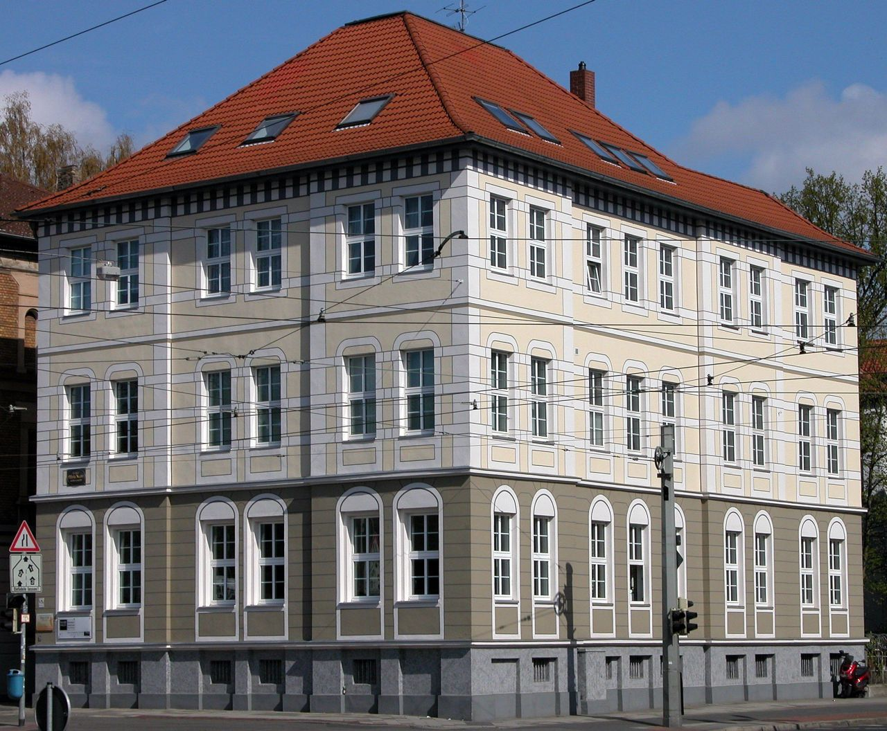 Brunswick, Germany: House of Wilhelm Raabe.